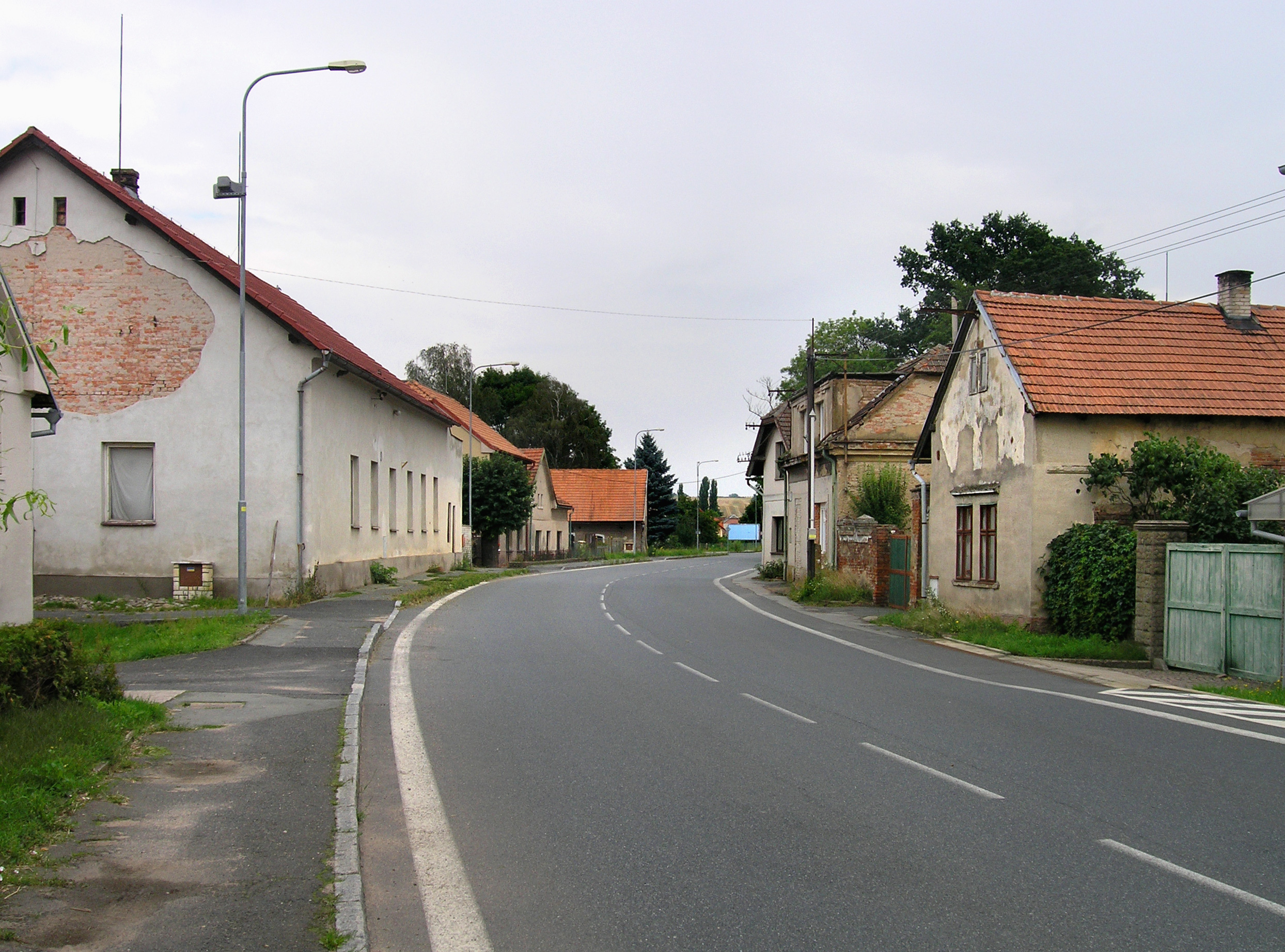 South part of Kobylnice, Czech Republic